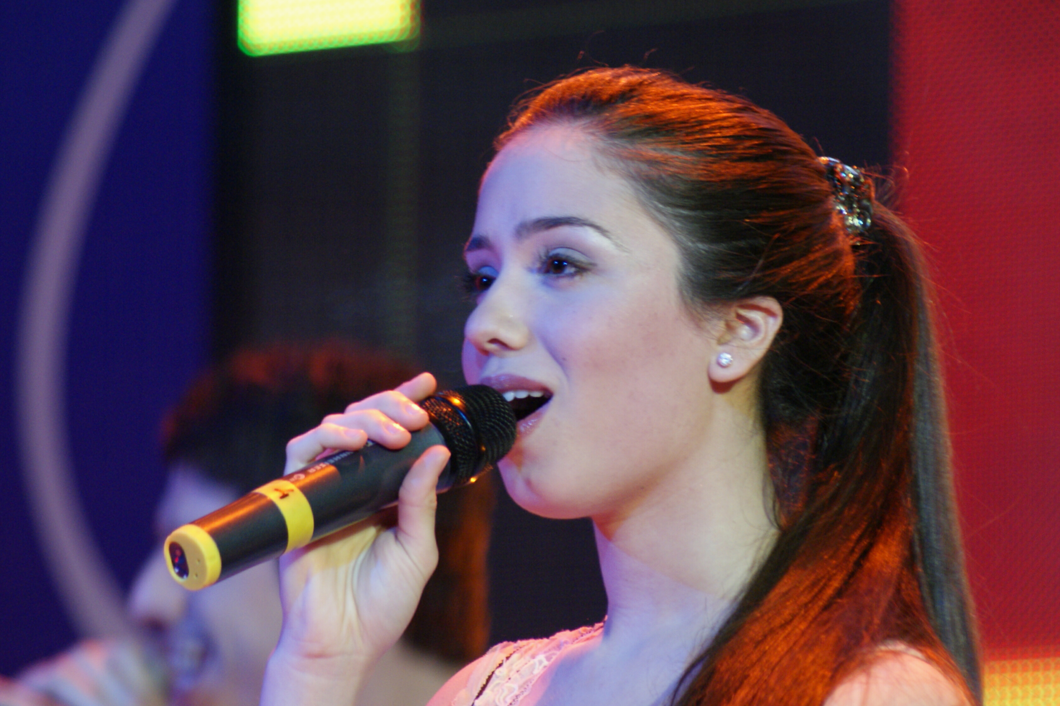 Christina Metaxa